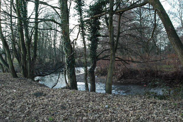 Meander in the Afon Lwyd south-west of Croesyceiliog School.